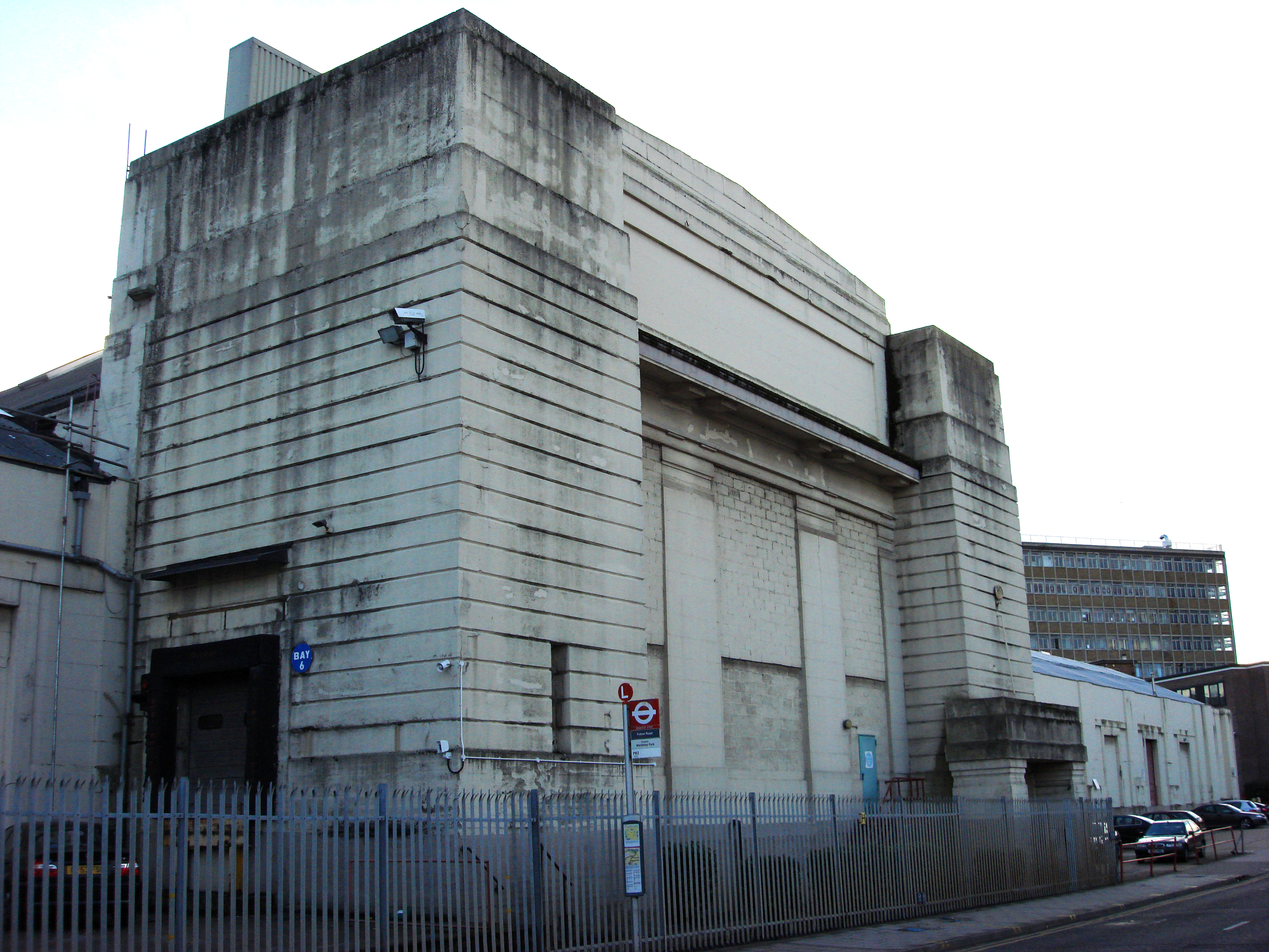 Palace of Industry building from The British Empire Exhibition 1924 now used as warehousing ,Wembley, London, UK